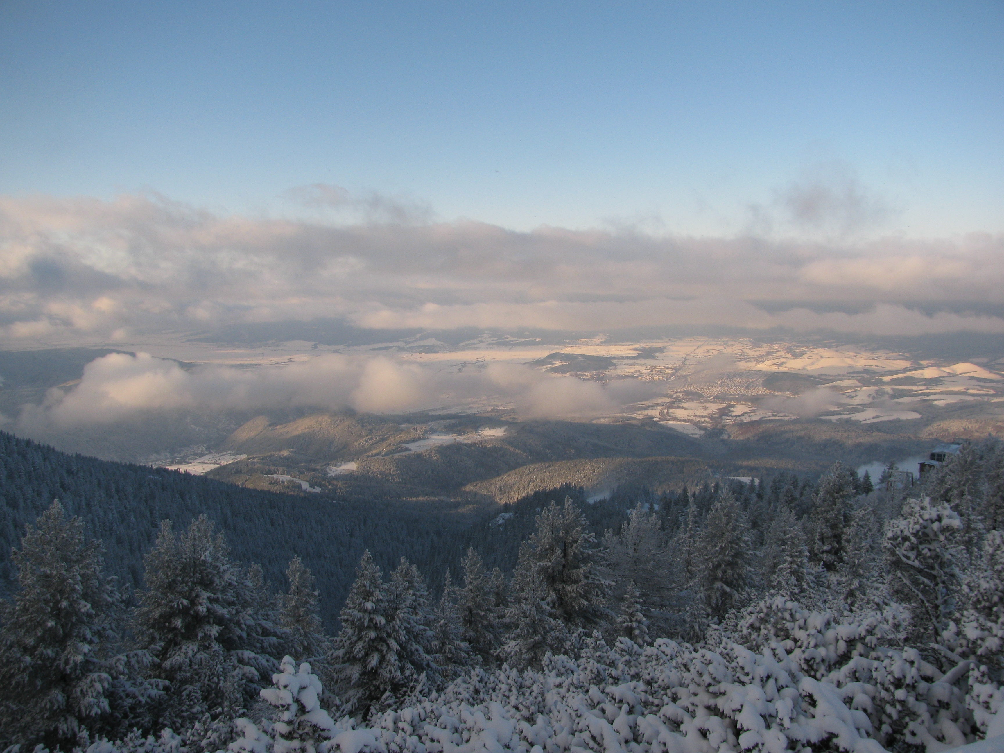 Samokov and surroundings as seen from Borovets.